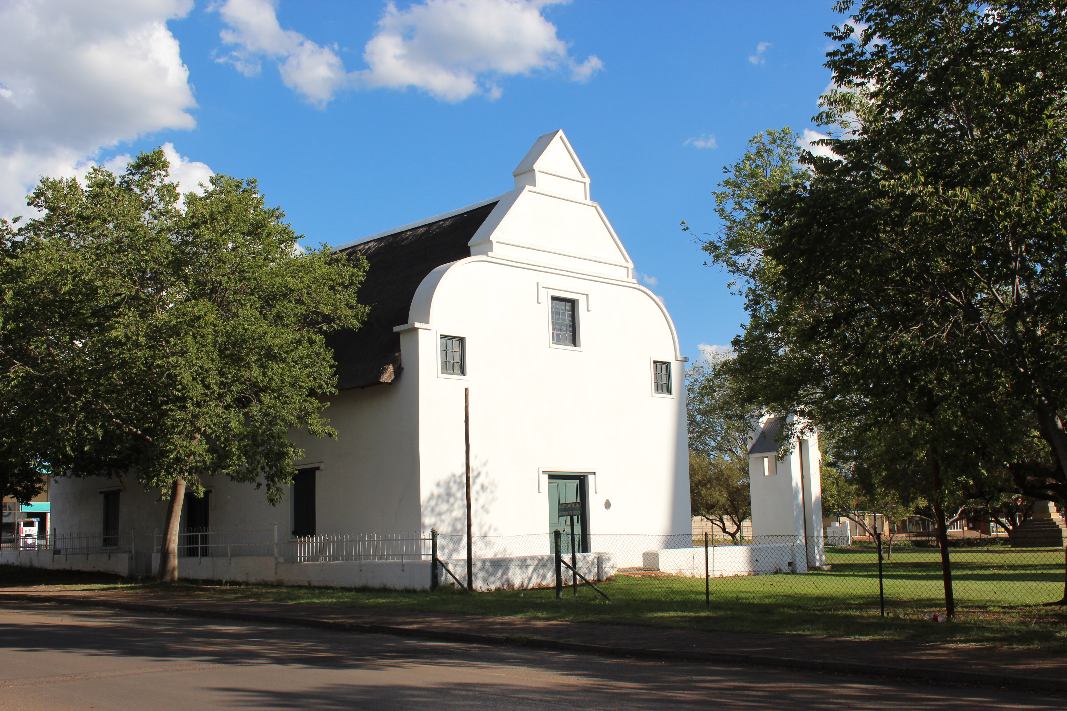 The Voortrekker leader Andies Potgieter during 1845 was forced to move by the British to a position + 25 degree South. Founded Ohrigstad but due to being plagued by mosquitoes were forced south to Lydenburg where this church was built